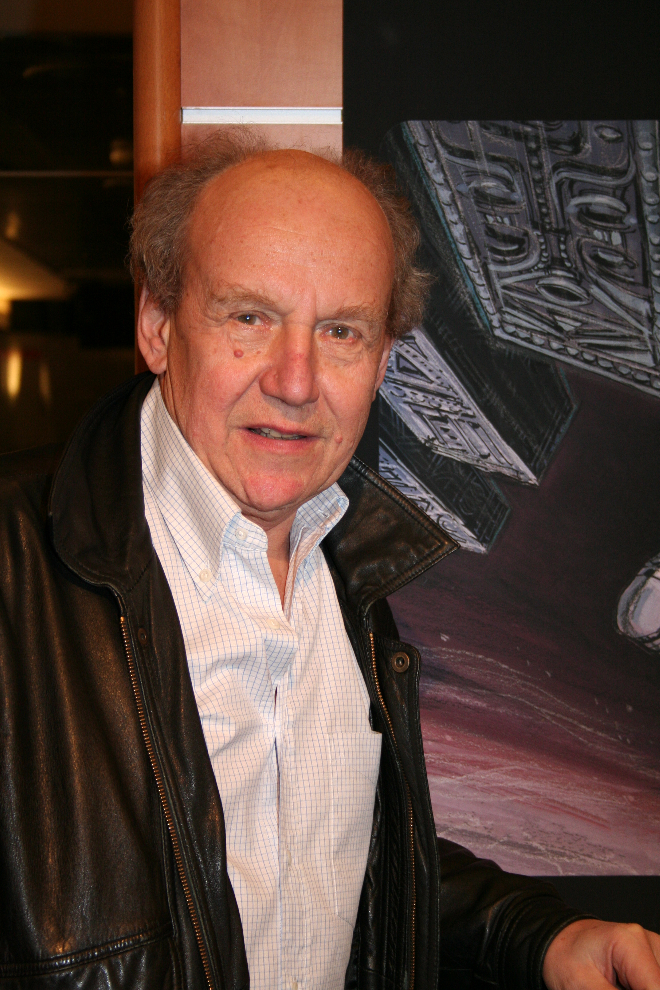 Rendezvous with Jean-Claude Mézières at Fnac des Ternes (Paris, France).